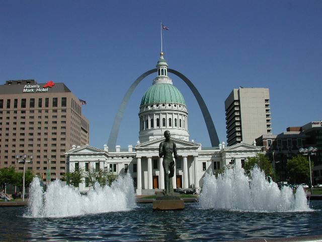 The Runner (1966) by William Zorach, the Old Courthouse and Gateway Arch from Kiener Plaza.